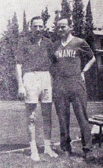 Silvio Piola (left) with Traian Ionescu (right) at Coverciano training ground.